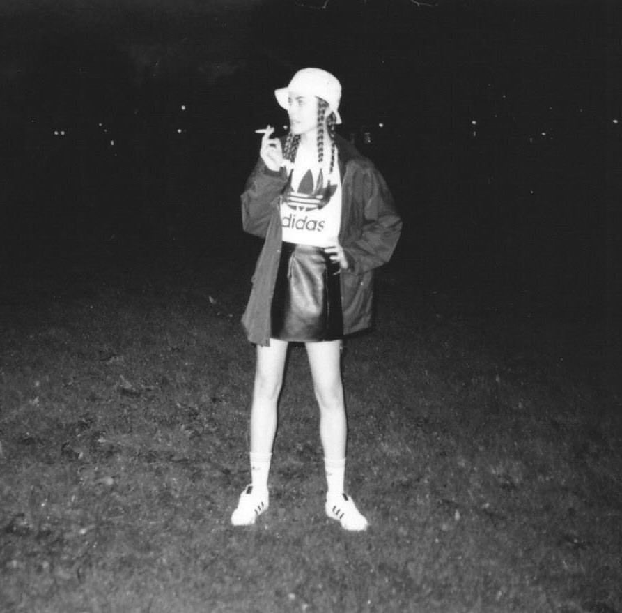 Zyra, Alex Cheatle, Singer, Musician